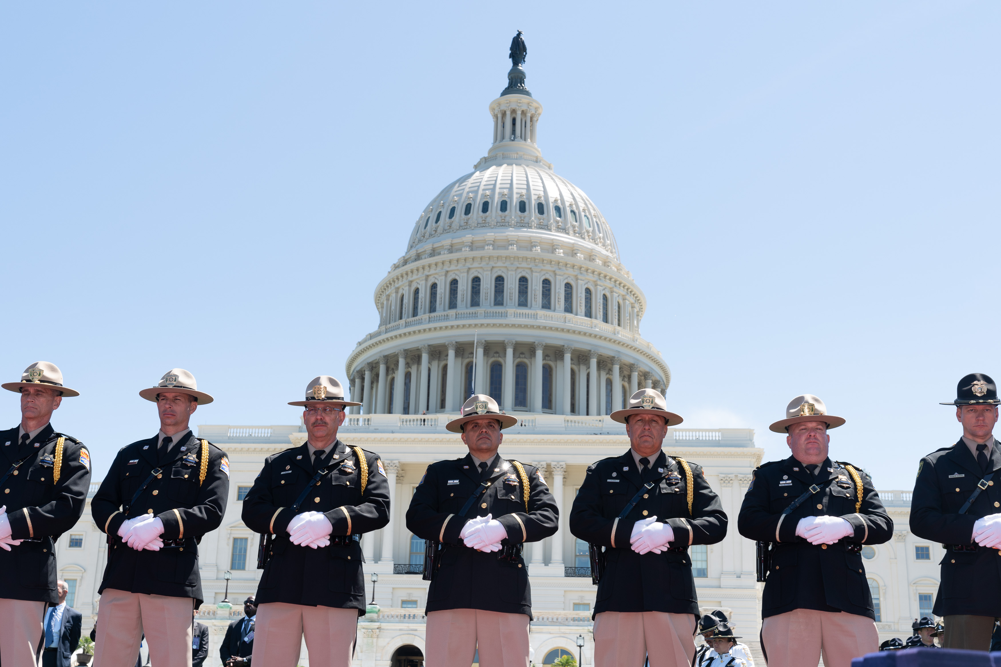 President Donald J. Trump attends the 38th annual National Peace Officers’ Memorial Service Wednesday, May 15, 2019, at the U.S. Capitol in Washington, D.C. (Official White House Photo by Shealah Craighead)